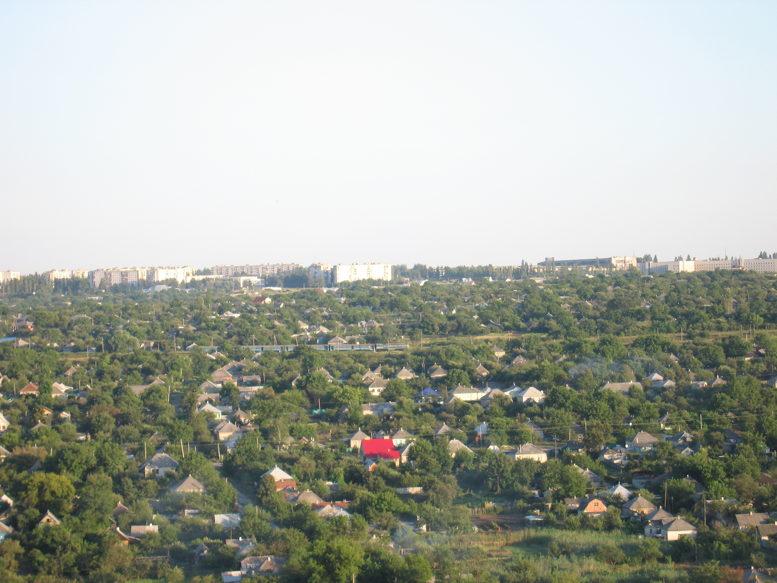 Lisichansk